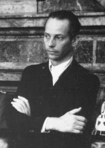 Information added by Wikimedia users.Detail: Peter Graf Yorck von Wartenburg